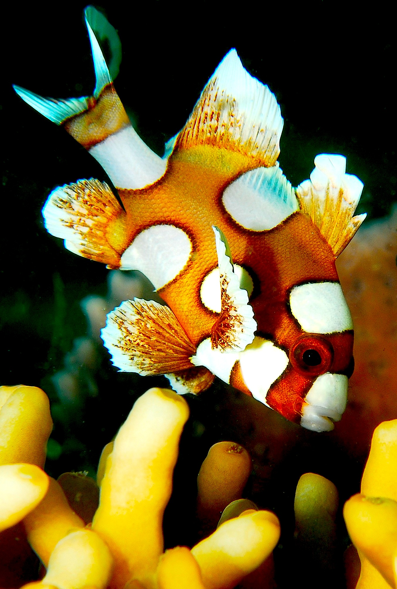 Fish Juveniles have a very hard time surviving, and some species adopt very interesting strategies to achieve maturity. Many species also looks completely different from adults when immature, some baby has perfect camouflage.